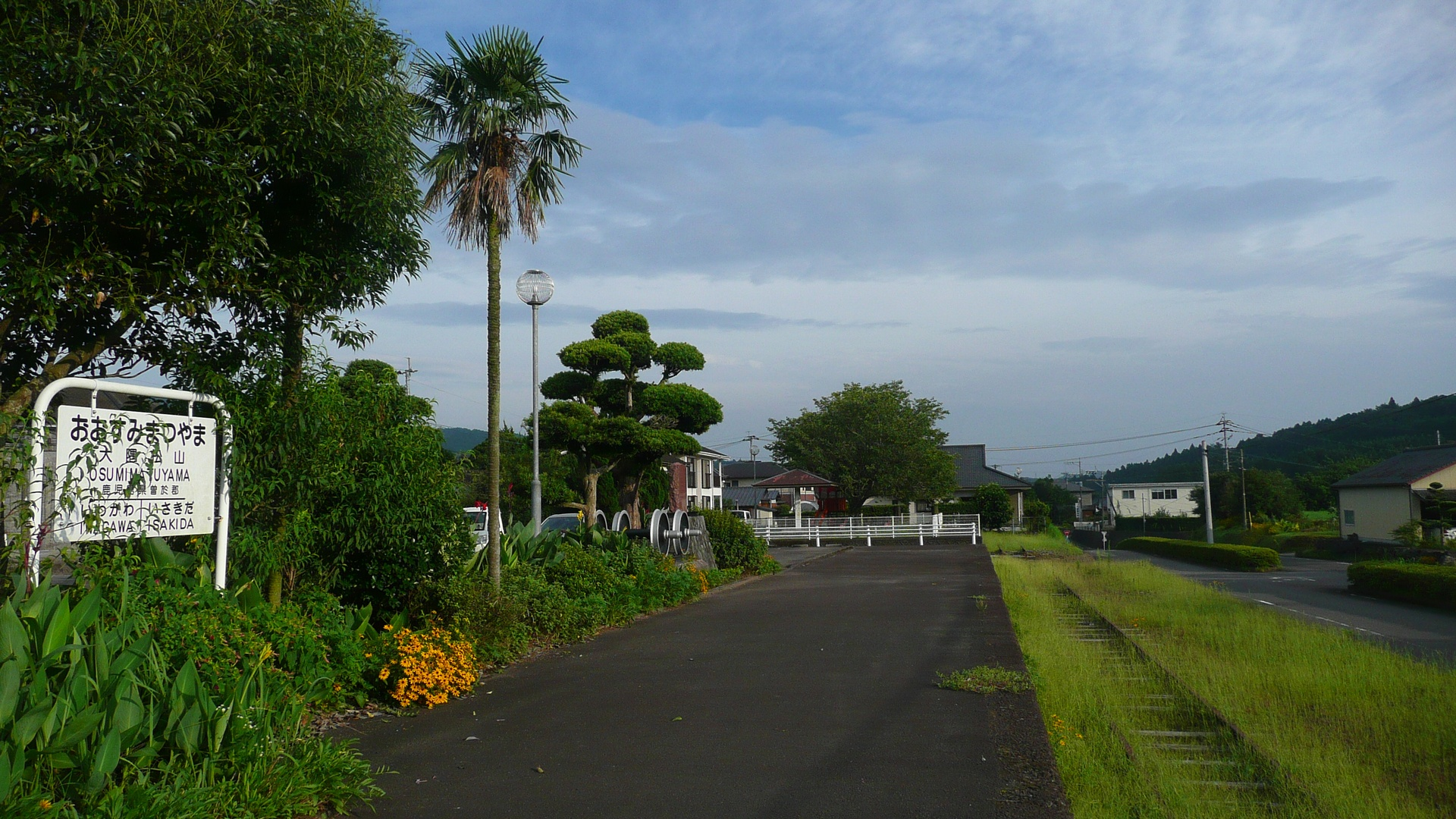 Former Osumi-Matsuyama Station (JNR Shibushi Line, 1924-1987) This station was located in Matsuyama, Shibushi City, Kagoshima, Japan.